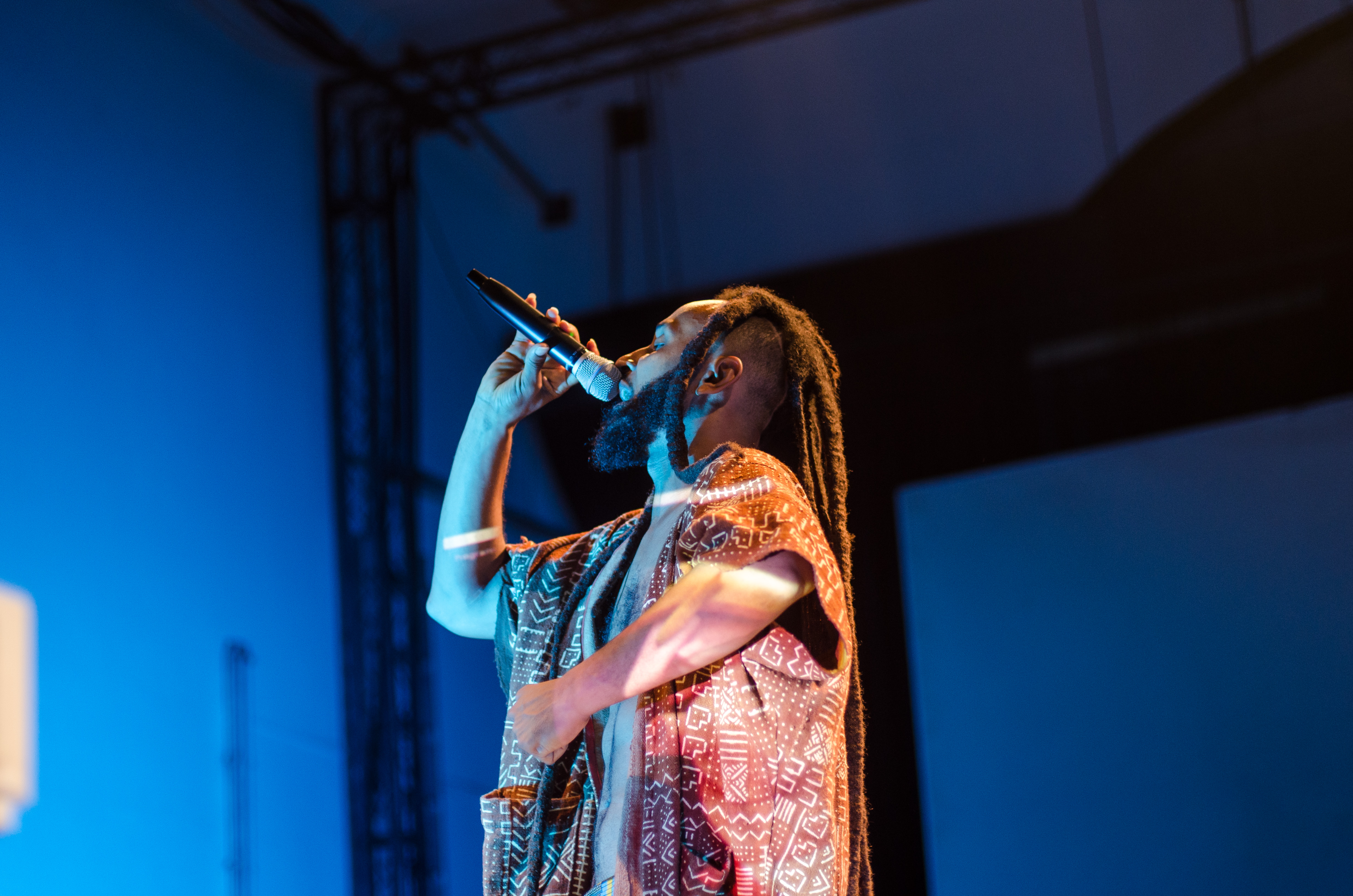 Wanlov da kubolor the other half of Fokn Bois performing at a concert at Alliance Francais in Ghana.